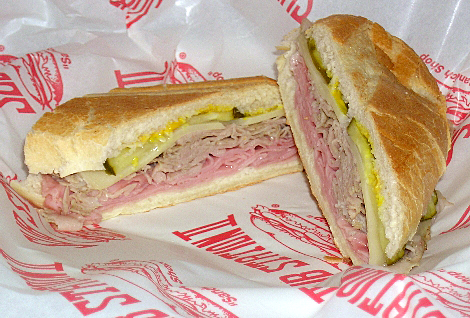 A typical Cuban mix (sandwich) from South Florida.